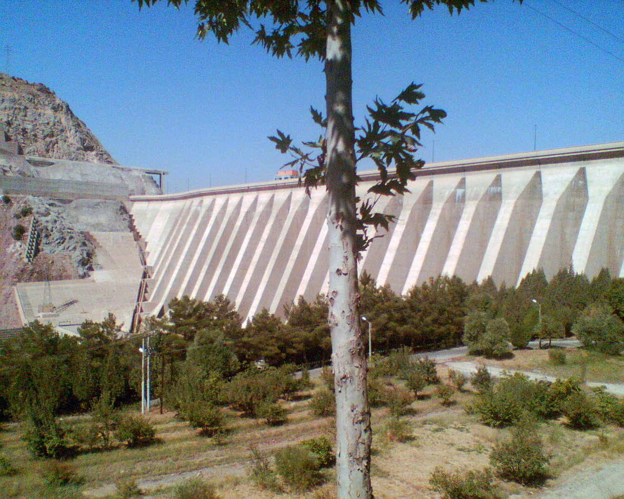 Latyan Dam in Shemiranat County.